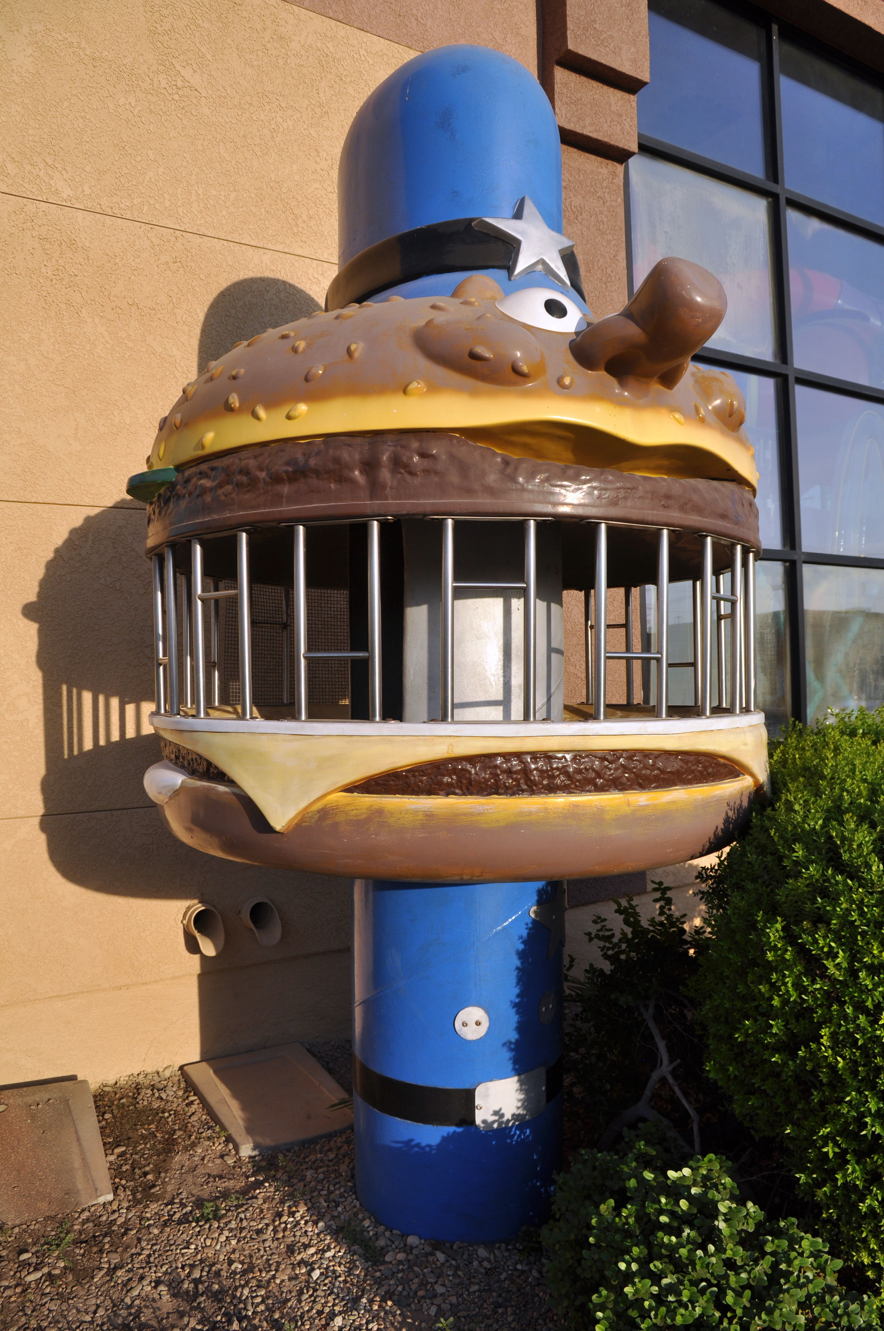 A McDonald's Officer Big Mac jailhouse with a mouth/burger/jail for kids to climb-into. It was part of the 1970s era "McDonaldland" playgrounds. This piece is on display at a McDonald's in Calexico, southern California.